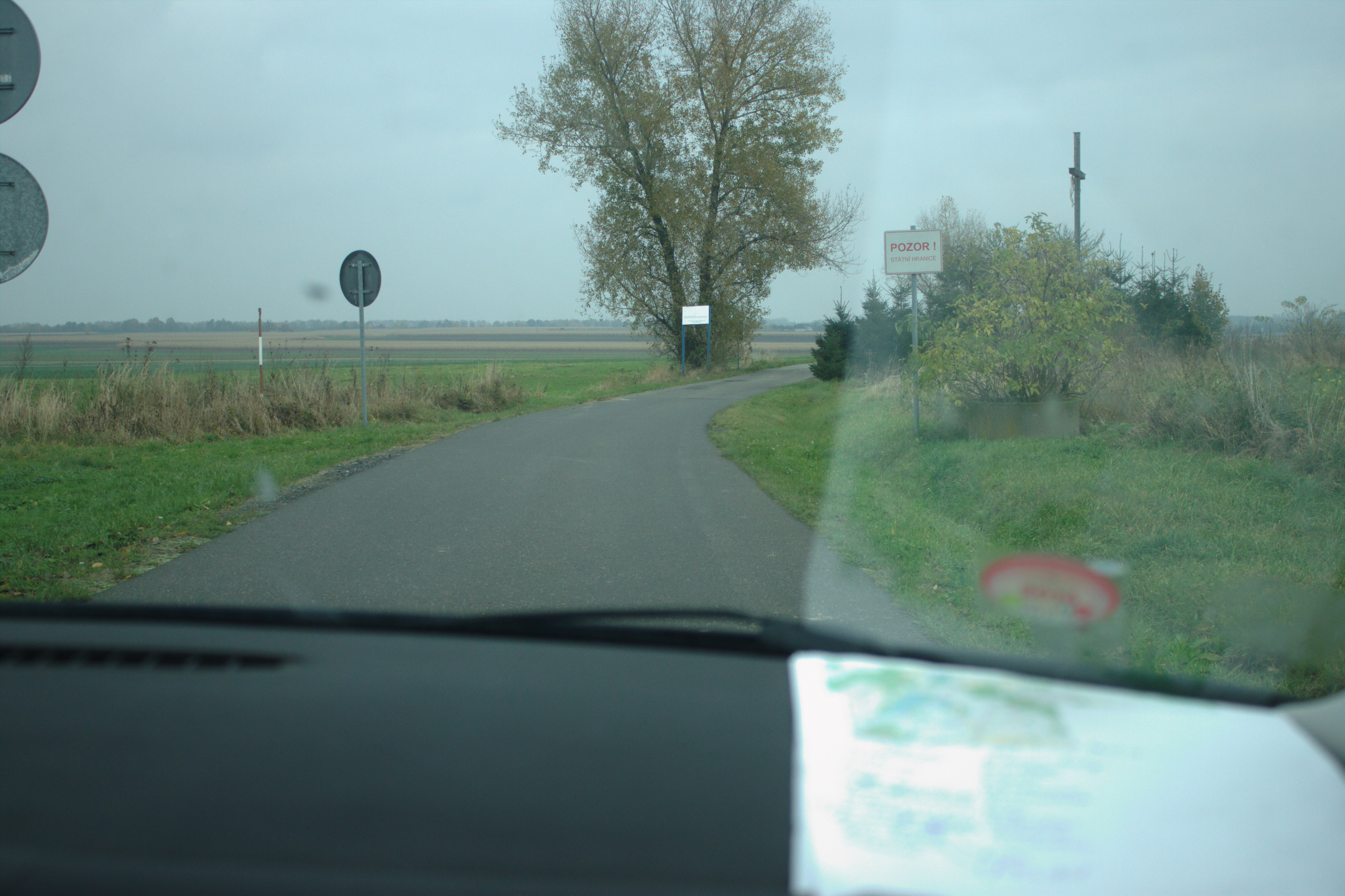 Wikiexpedition 2016 car crossing Czech-Polish border near Rusín, CZ